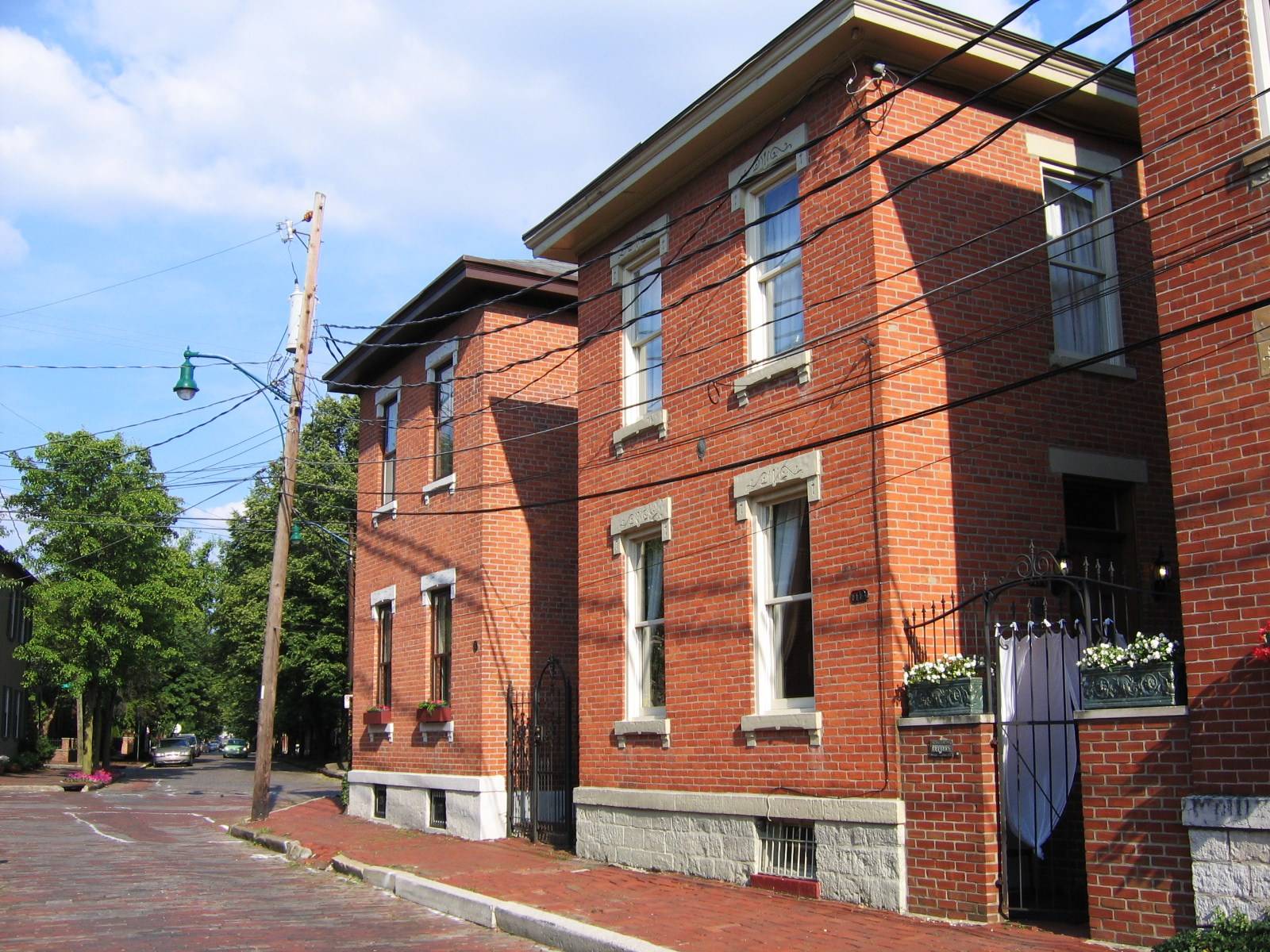 German Village, Columbus, Ohio; brick houses on E. Beck Street.